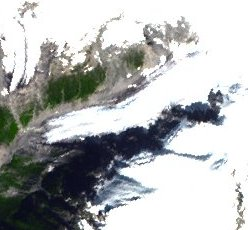 Satellite photo of the Trudel Glacier.